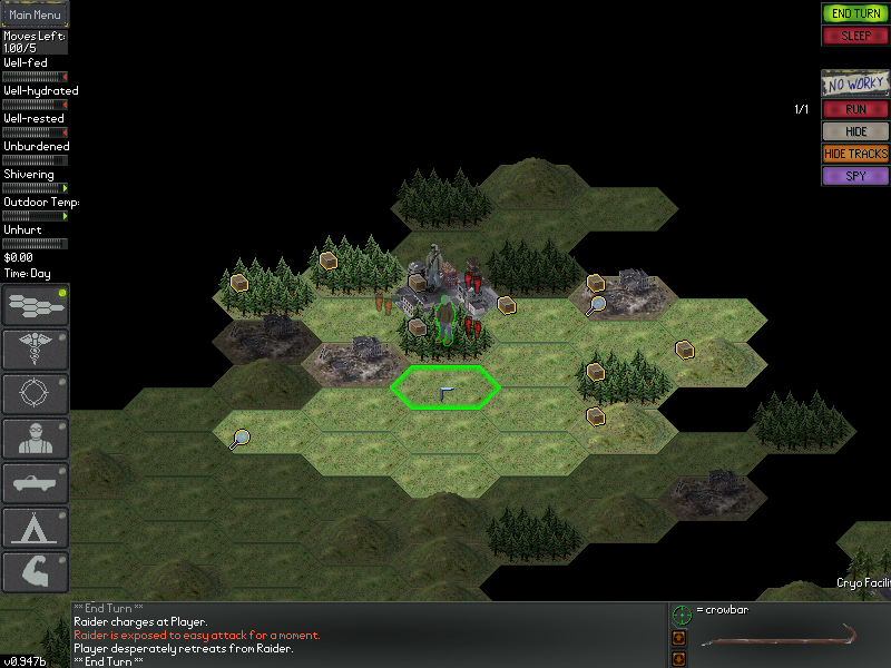 A screenshot from the video game NEO Scavenger.